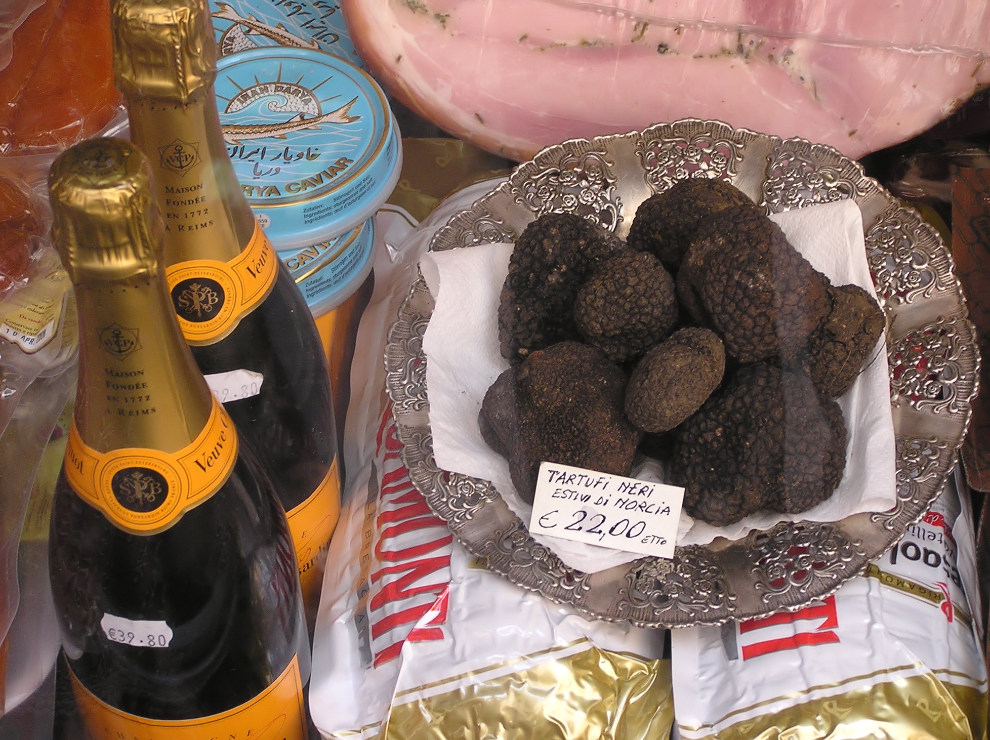 Black Summer Truffle (Italian: Tartufi Neri Estivi) Tuber Aestivum in a shop window in Rome, Italy, sided with Iranian caviar and Veuve Clicquot Champagne.